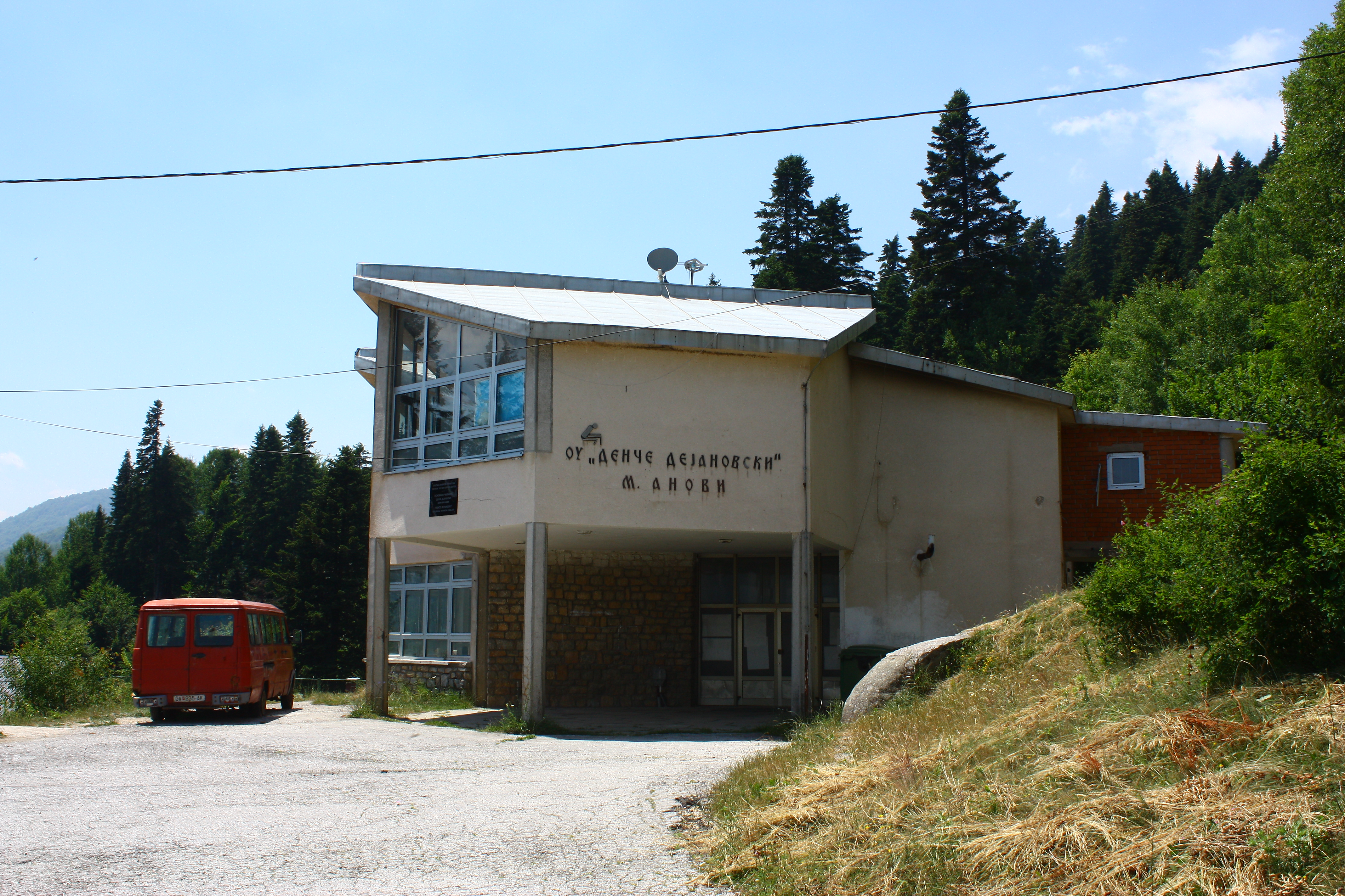 Denče Dejanoski Primary School in Mavrovi Anovi, Macedonia